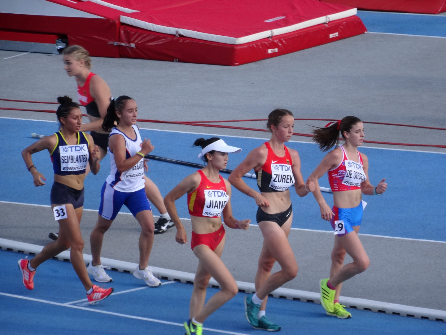 2016 IAAF World U20 Championships in Bydgoszcz, 10000m walk women